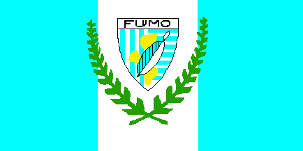 FUMO flag